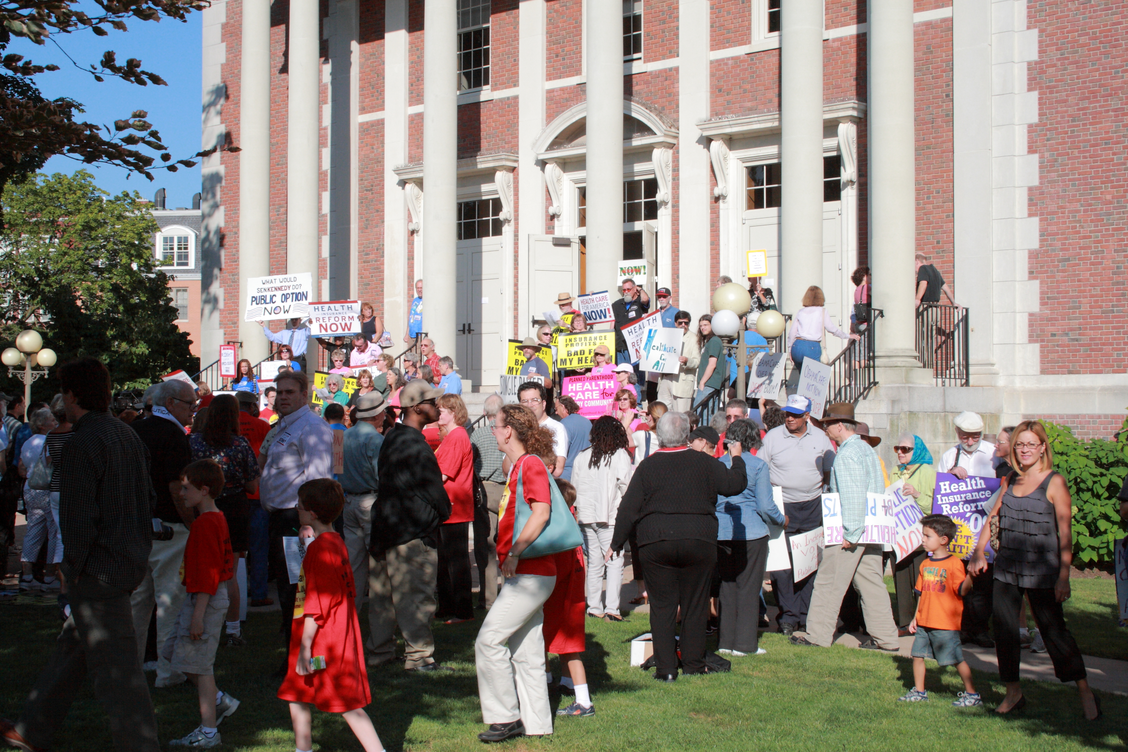 People gathered outside the West Hartford, Connecticut town hall before a health care reform town hall meeting with U.S. Representative John B. Larson on 2 September 2009